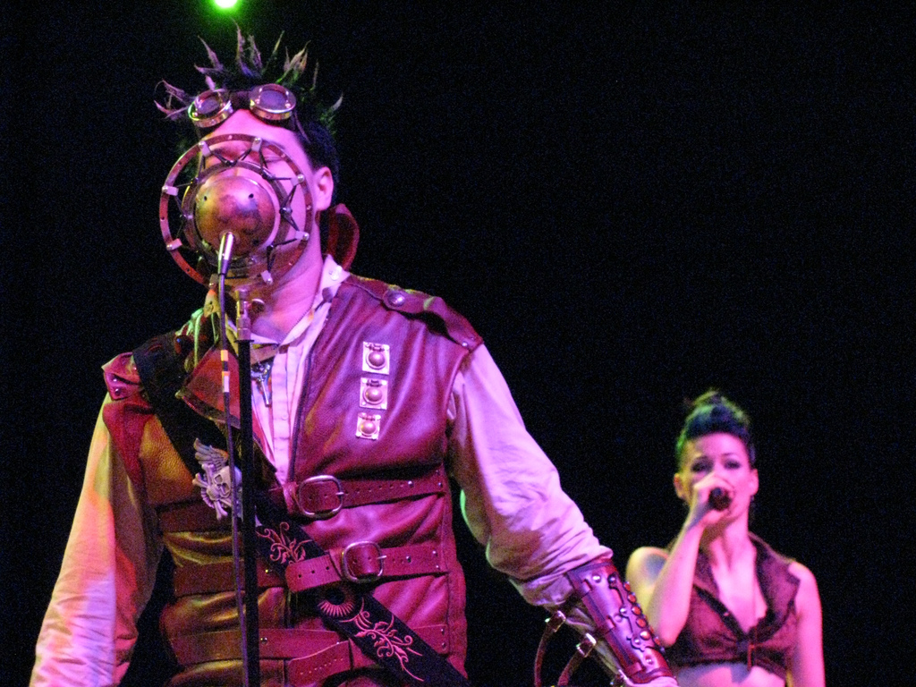 Robert Brown and Finn Von Claret of Abney Park perform at Dragoncon 2008